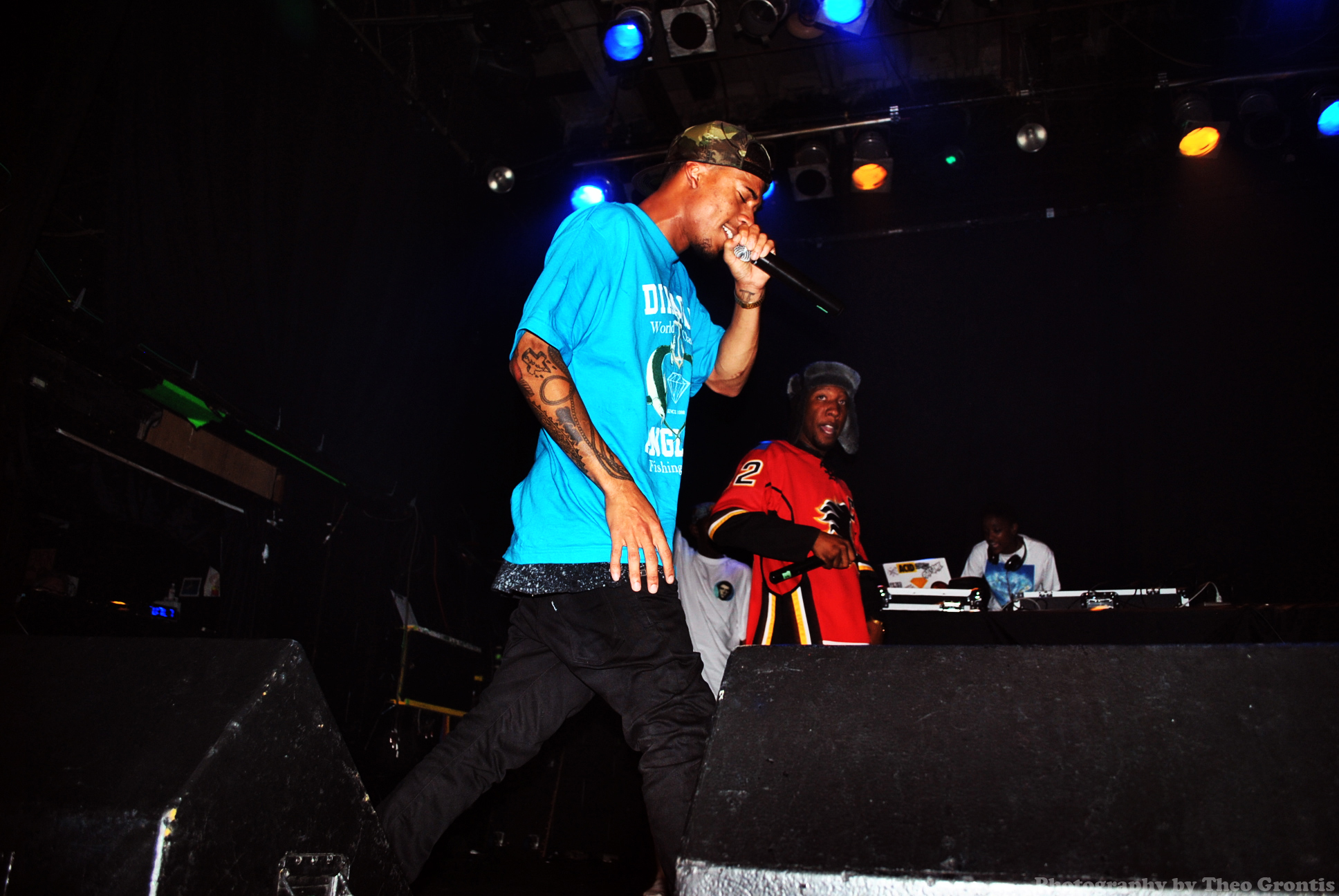 Photography by Theo Grontis for The Come Up Show.